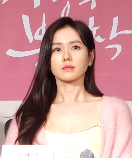 South Korean actress Son Ye-jin in 2019.